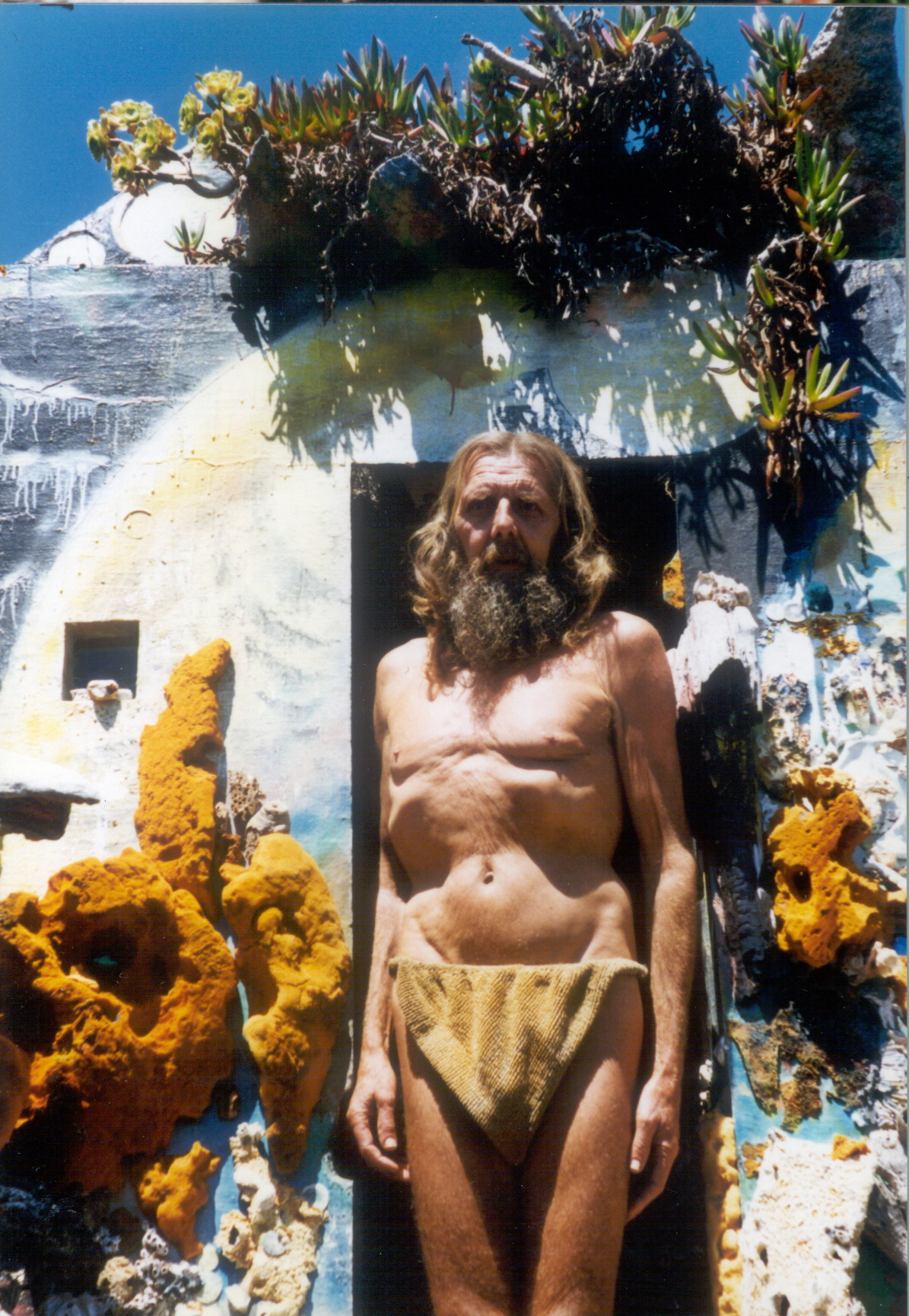 portrait of Manfred Gnadinger